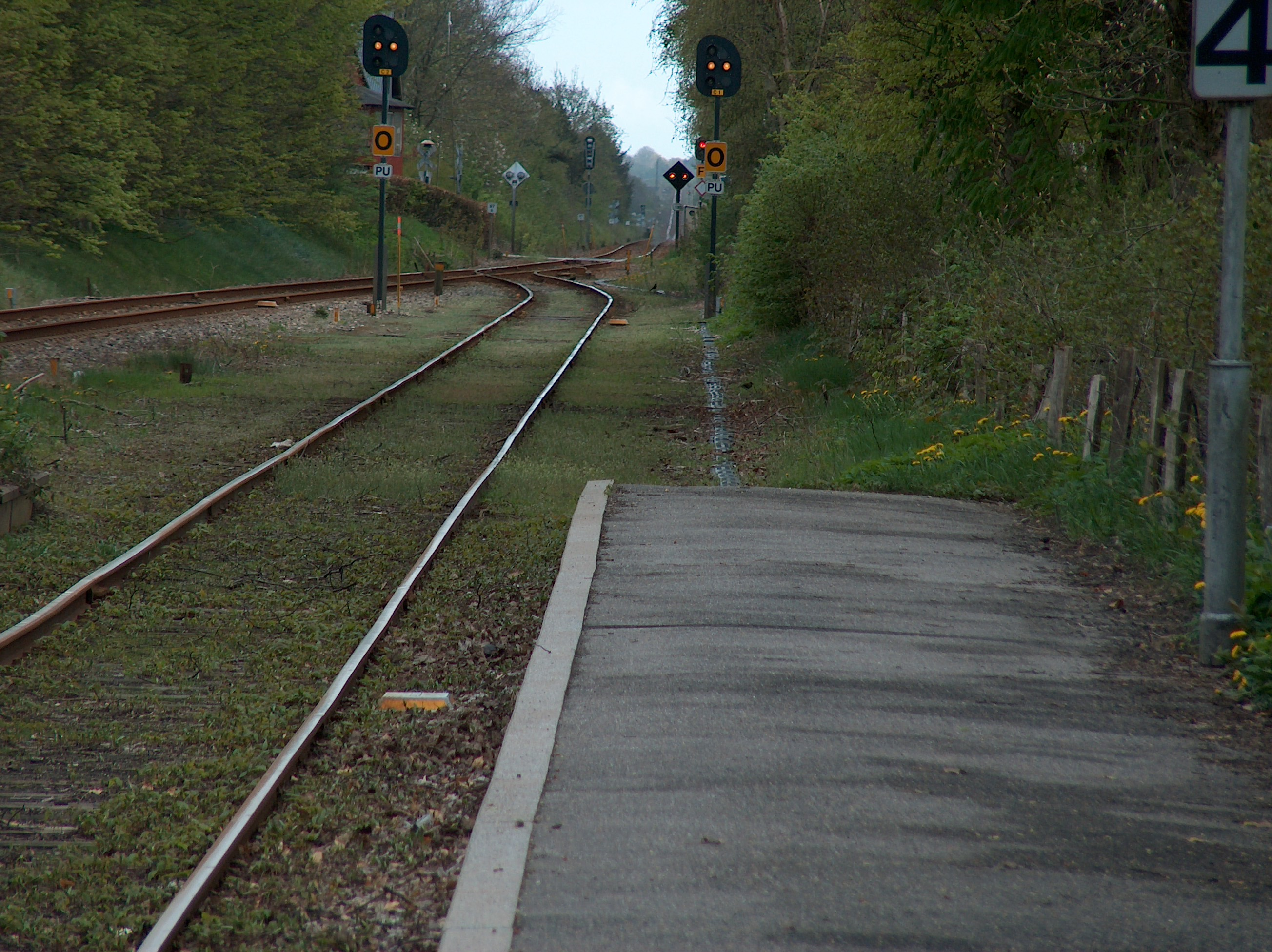 overview - Ølgod Station with ATP-balice